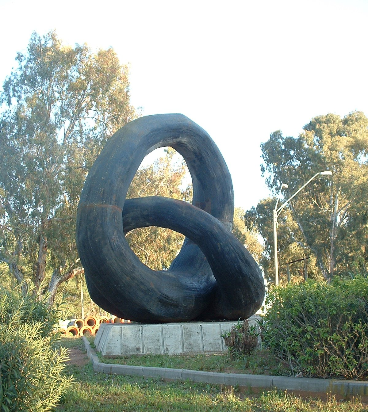 "Mounument to the Link" – "יד לשילוב" – erected to denote the combining in 1969 of two separate local municipalities in Israel – Pardes Hanna and Karkur – into one local municipality, called "Pardes Hanna-Karkur".